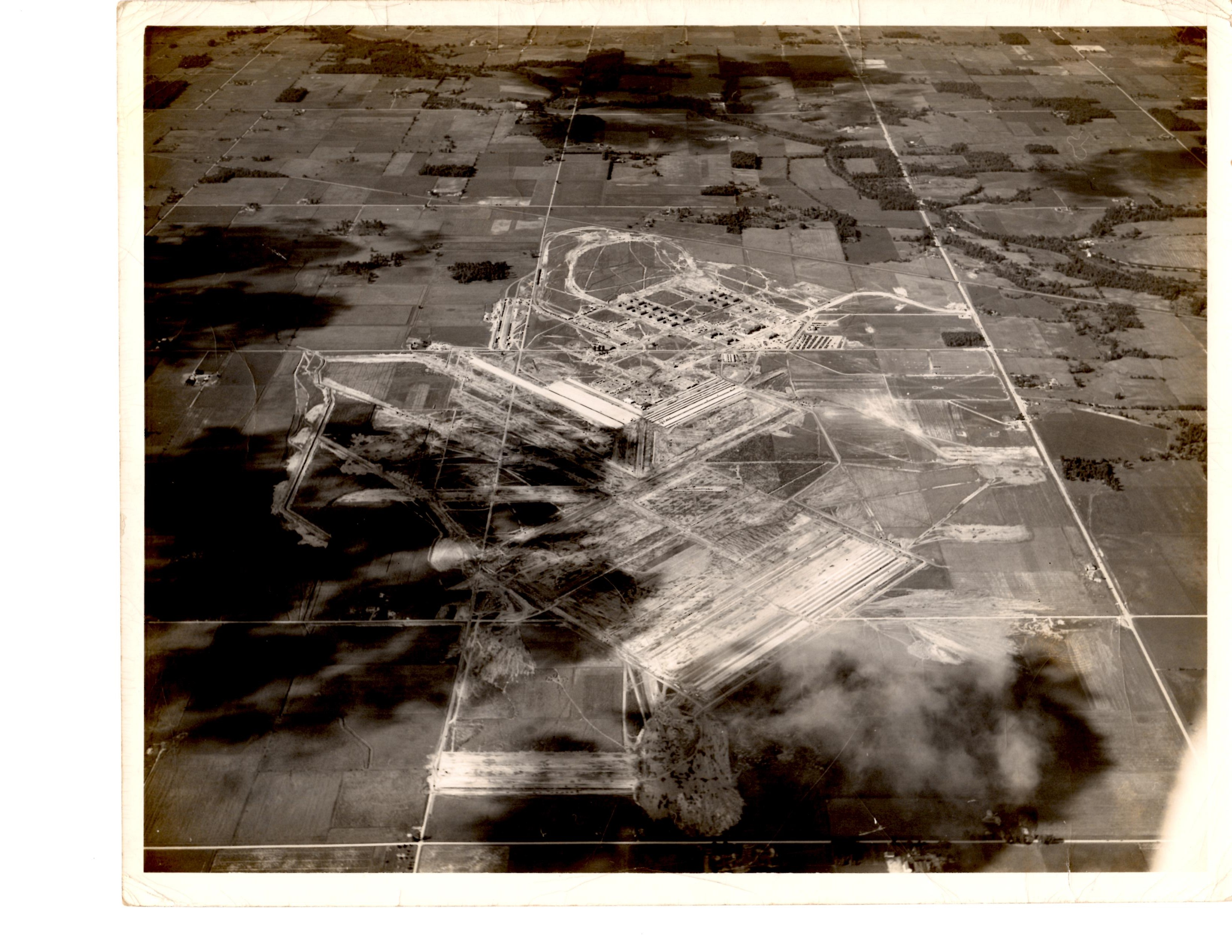 USNRAB Peru Looking North 6500ft 8-24-1942